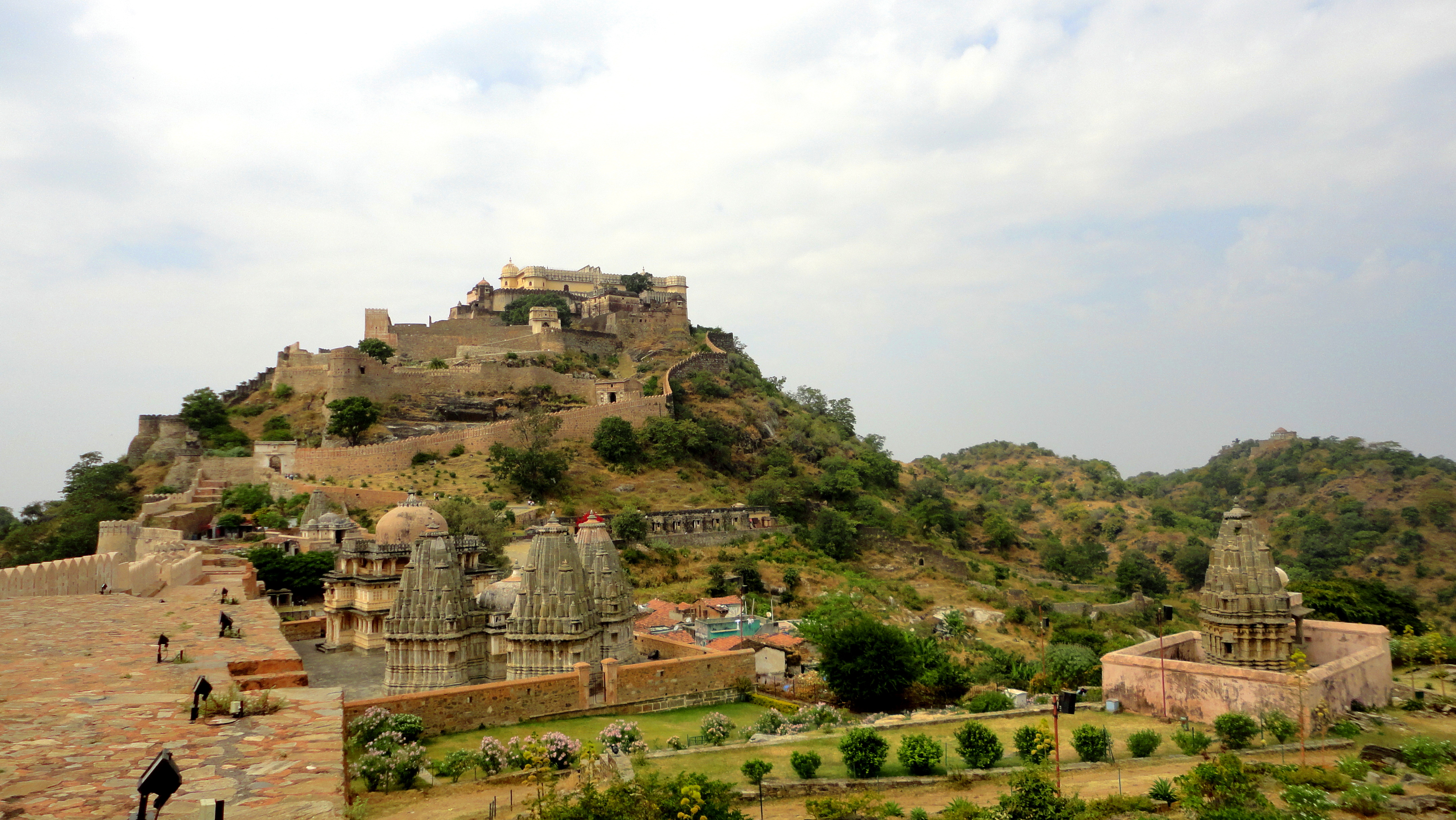 Fort of Kumbhalgarh as a whole